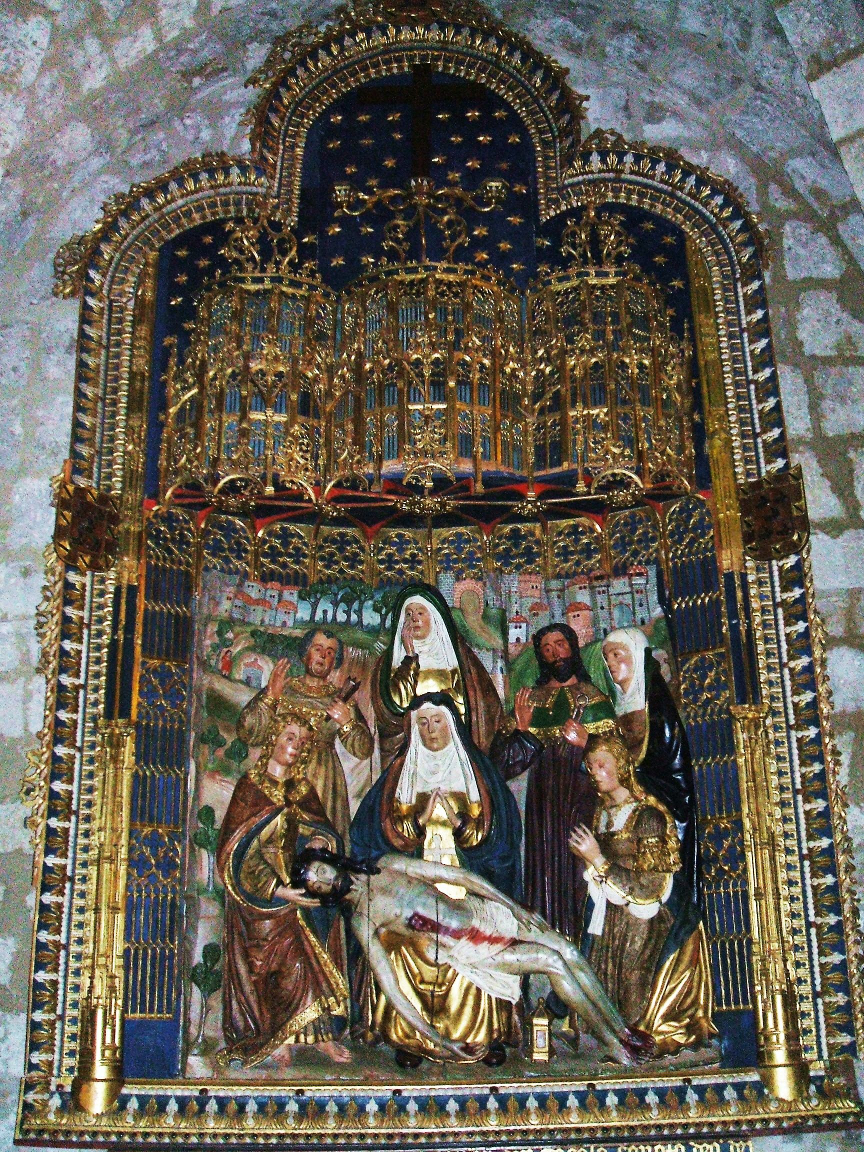 Retablo tardogótico de la Piedad, en la iglesia del Convento de San Pablo de Palencia (España), atribuido al escultor Felipe Vigarny.